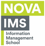 Logo NOVAIMS outra tentativa